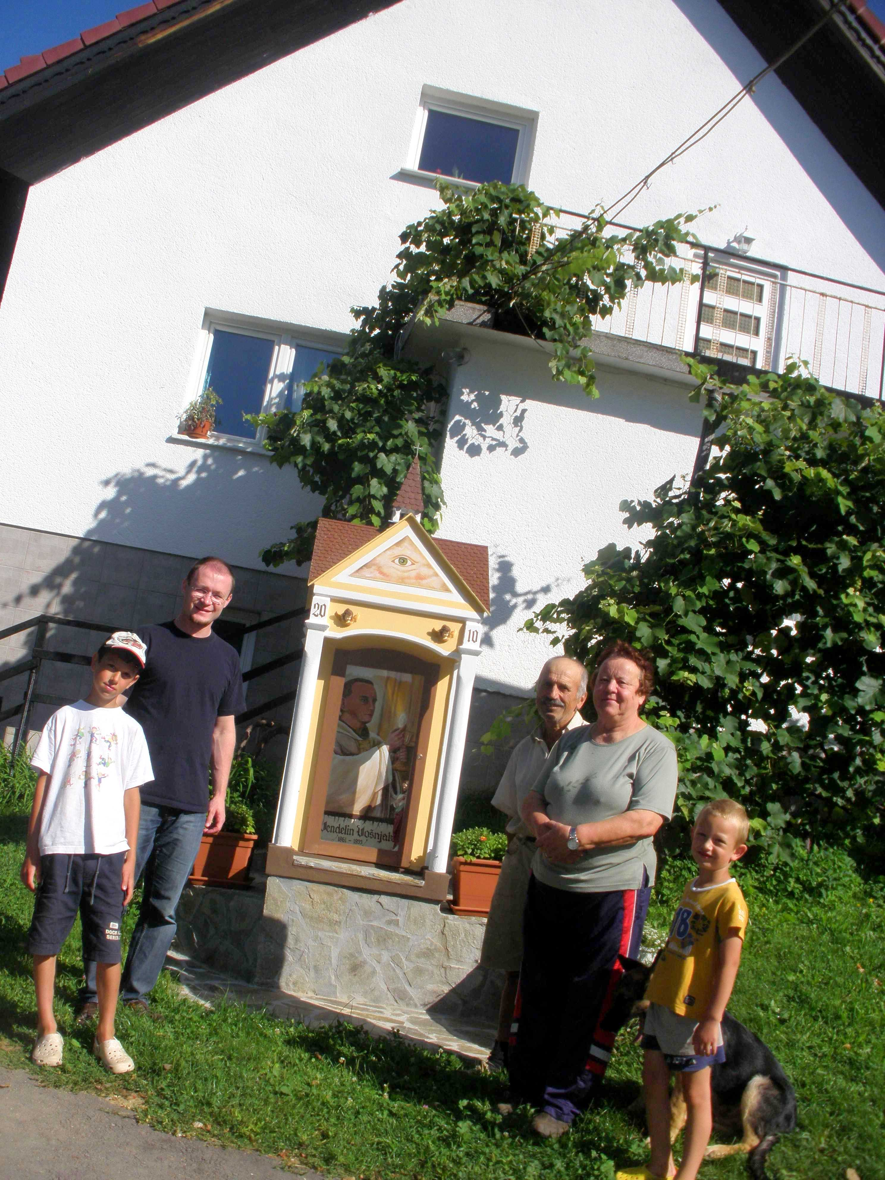 Native house of Serve of God Vendelin Vošnjak in Šenbric